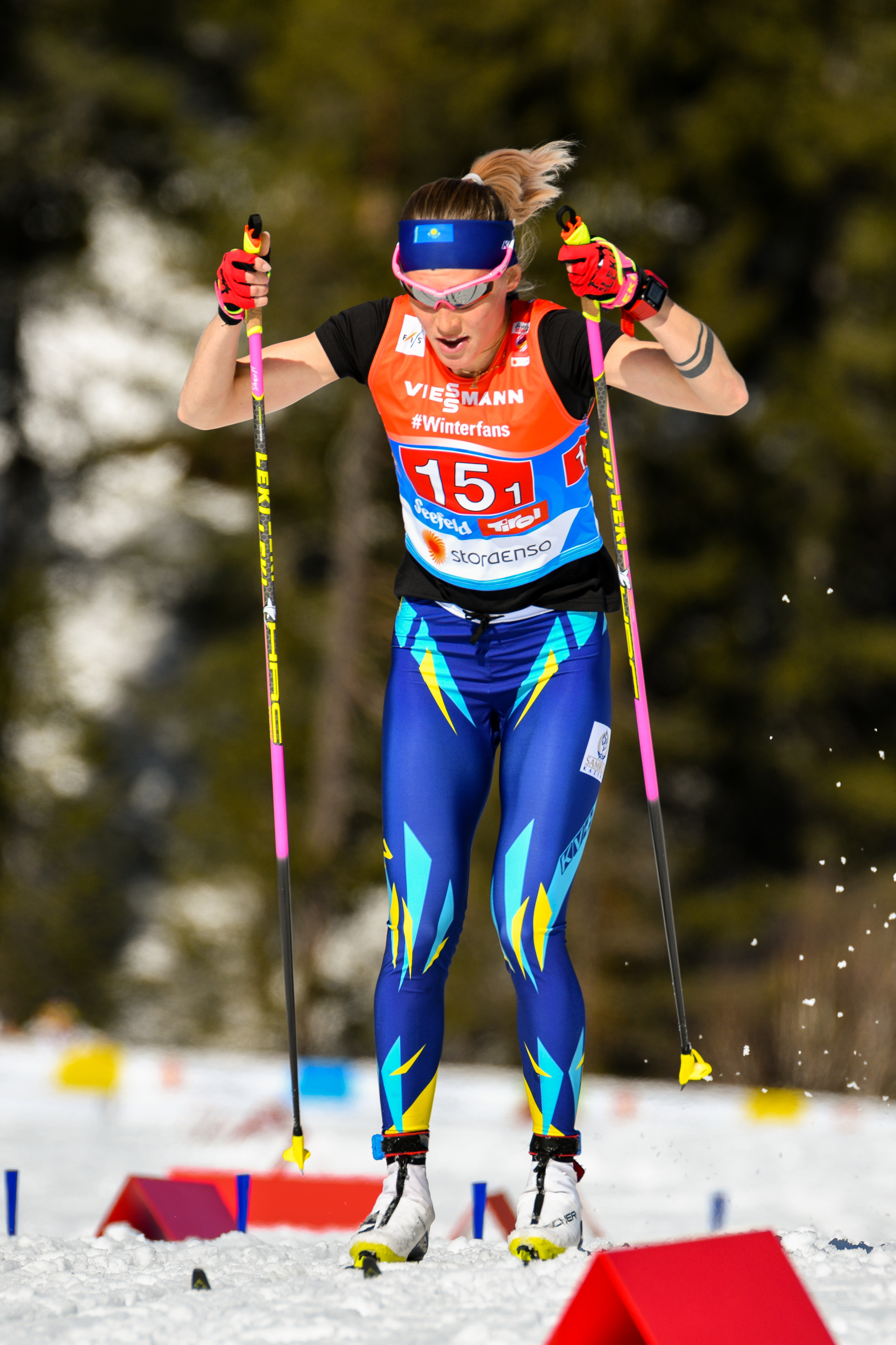 FIS Nordic World Ski Championships Seefeld 2019 - Ladies 4x5km Relay Classic/Free. Picture shows Anna Shevchenko (KAZ).